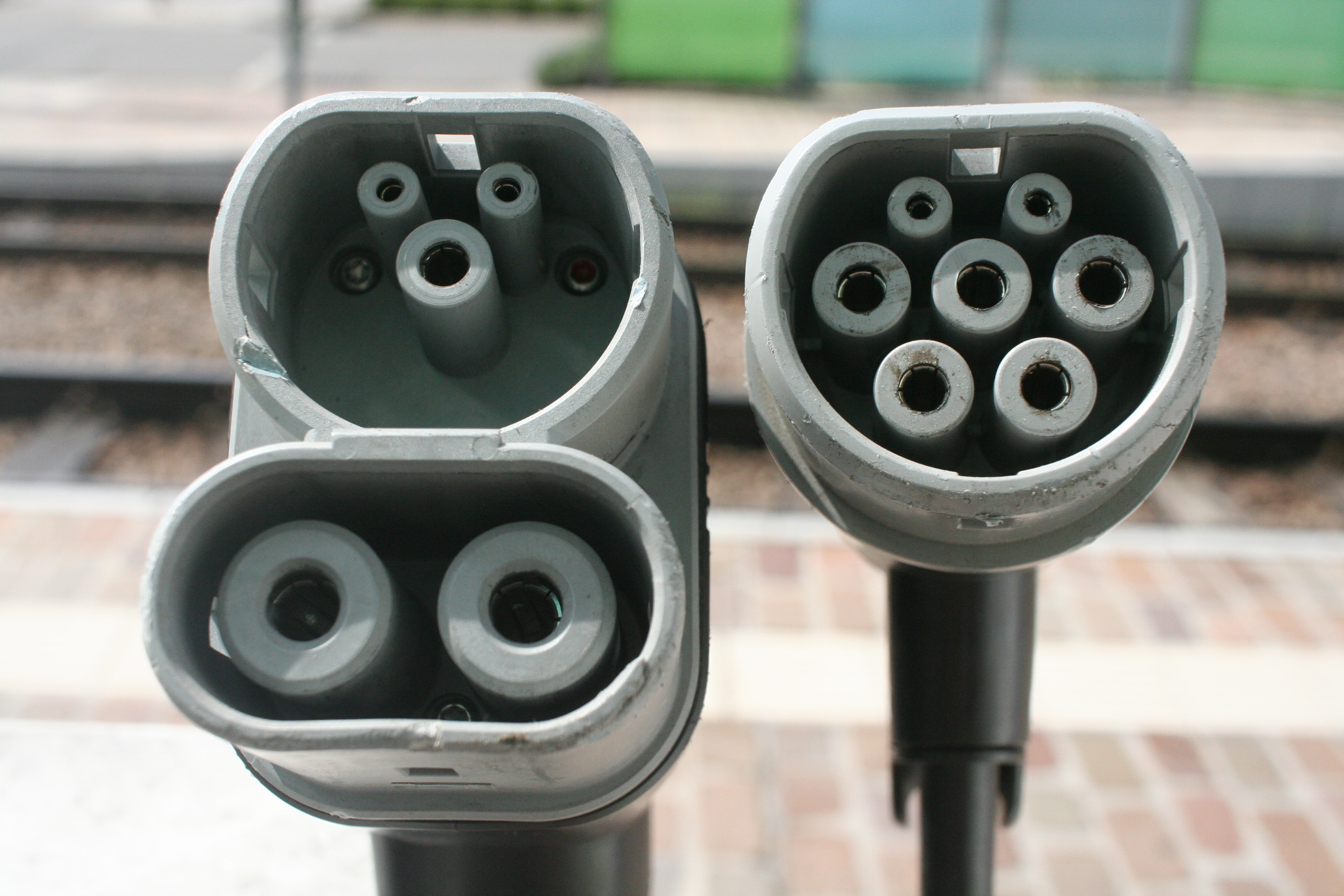 Comparison between Type 2 and Type 2 Combo automotive charging connectors: Left: European-style Combined Charging System which extends the Type 2 connector. Pins are Control Pilot (CP), Proximity Pilot (PP), Protective Earth (PE), Direct Current positive (DC+), Direct Current negative (DC-). Right: Europe-style Type 2 connector for Alternating Current (AC) charging and slow Direct Current (DC) charging. Pins are Control Pilot (CP), Proximity Pilot (PP), Neutral (N), Protective Earth (PE), Live/Phase 1 (L1), Phase 3 (L3), Phase 2 (L2).